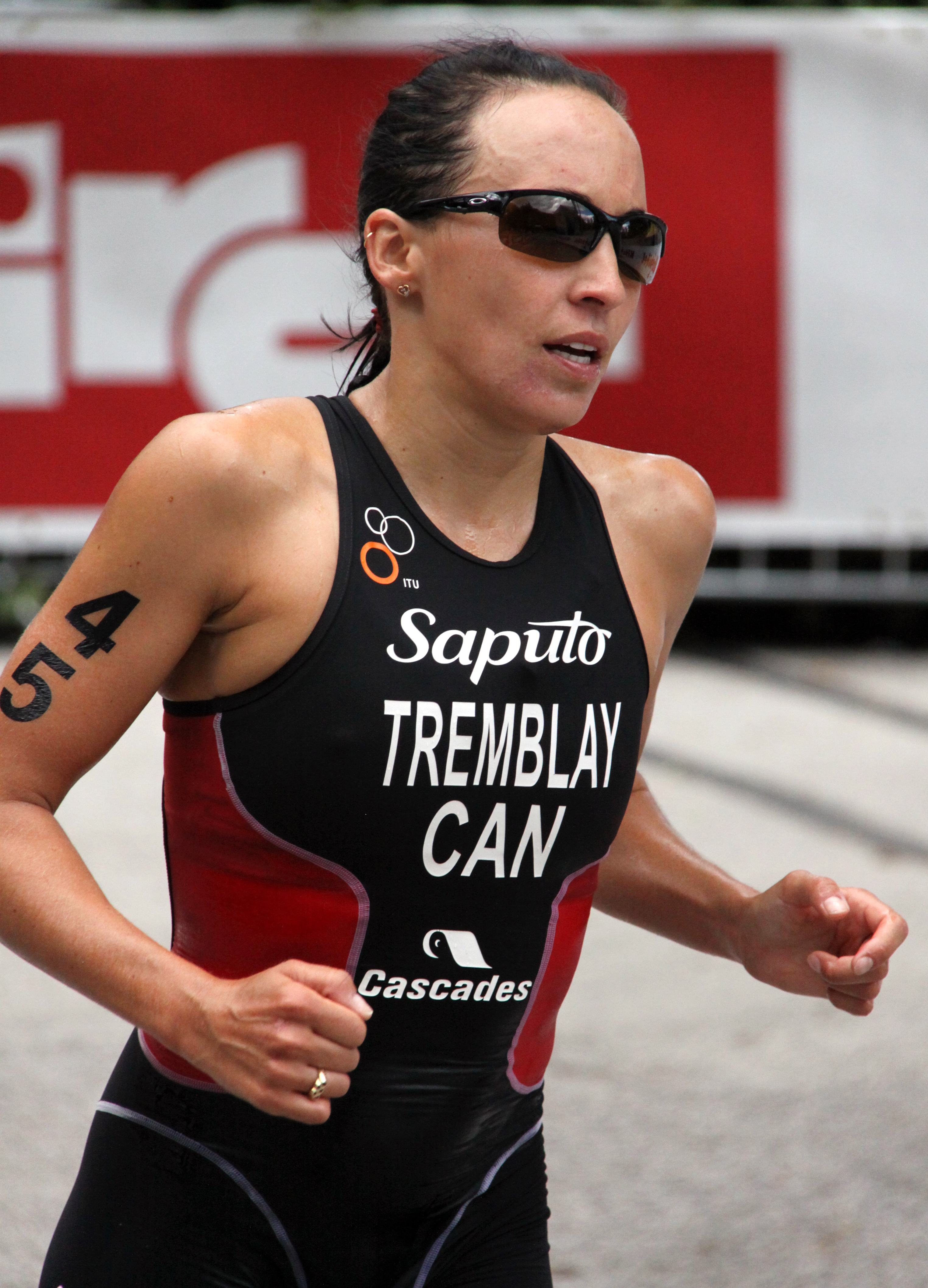 Kathy Tremblay at the World Championship Series Triathlon in Kitzbuhel (Kitzbühel), 2010.